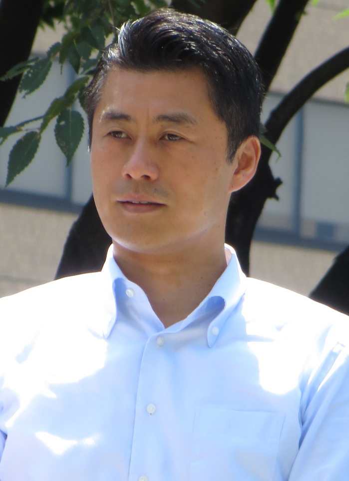 Gōshi Hosono (secretary-general of Democratic Party of Japan).